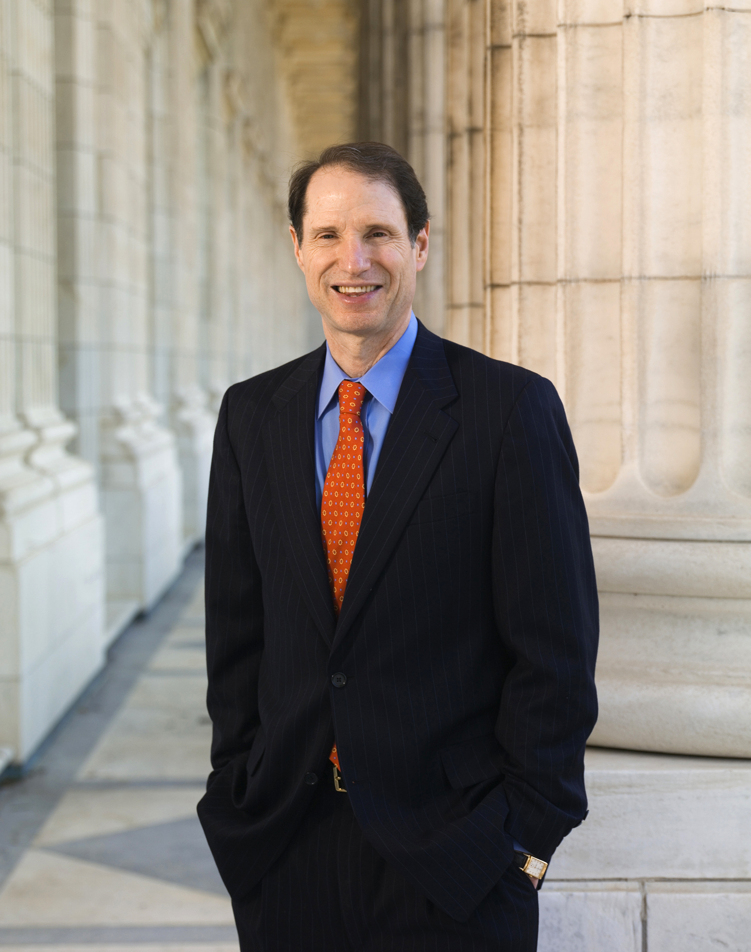 Official portrait of United States Senator Ron Wyden.